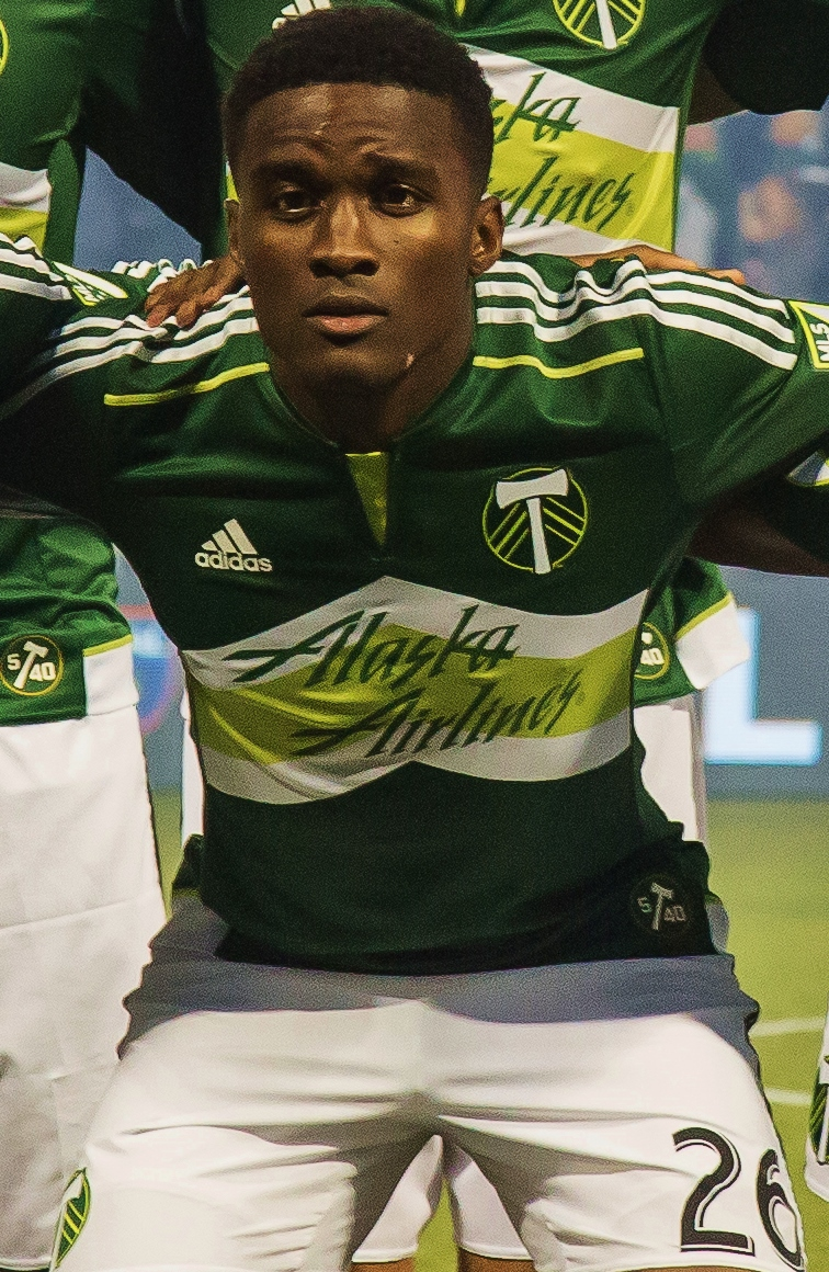 George Fochive